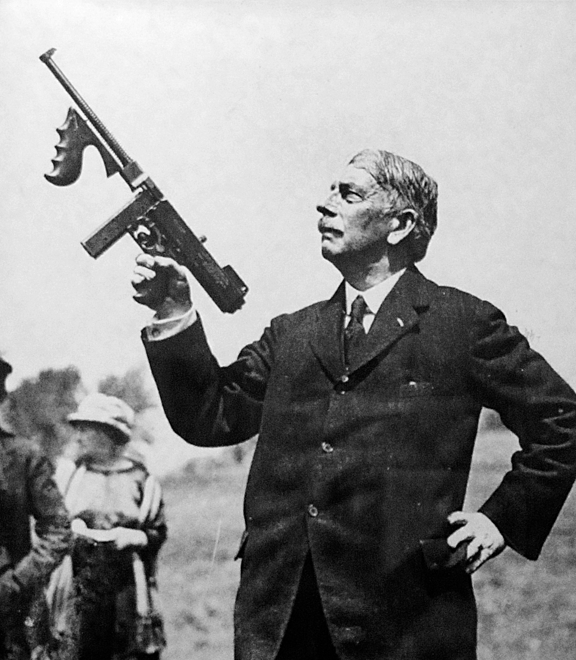 General John Taliaferro Thompson holding the Thompson Sub Machine Gun M1921.